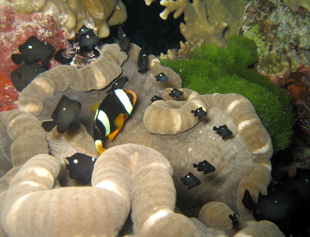 Amphiprion clarkii, Dascyllus trimaculatus & Cryptodendrum adhaesivum